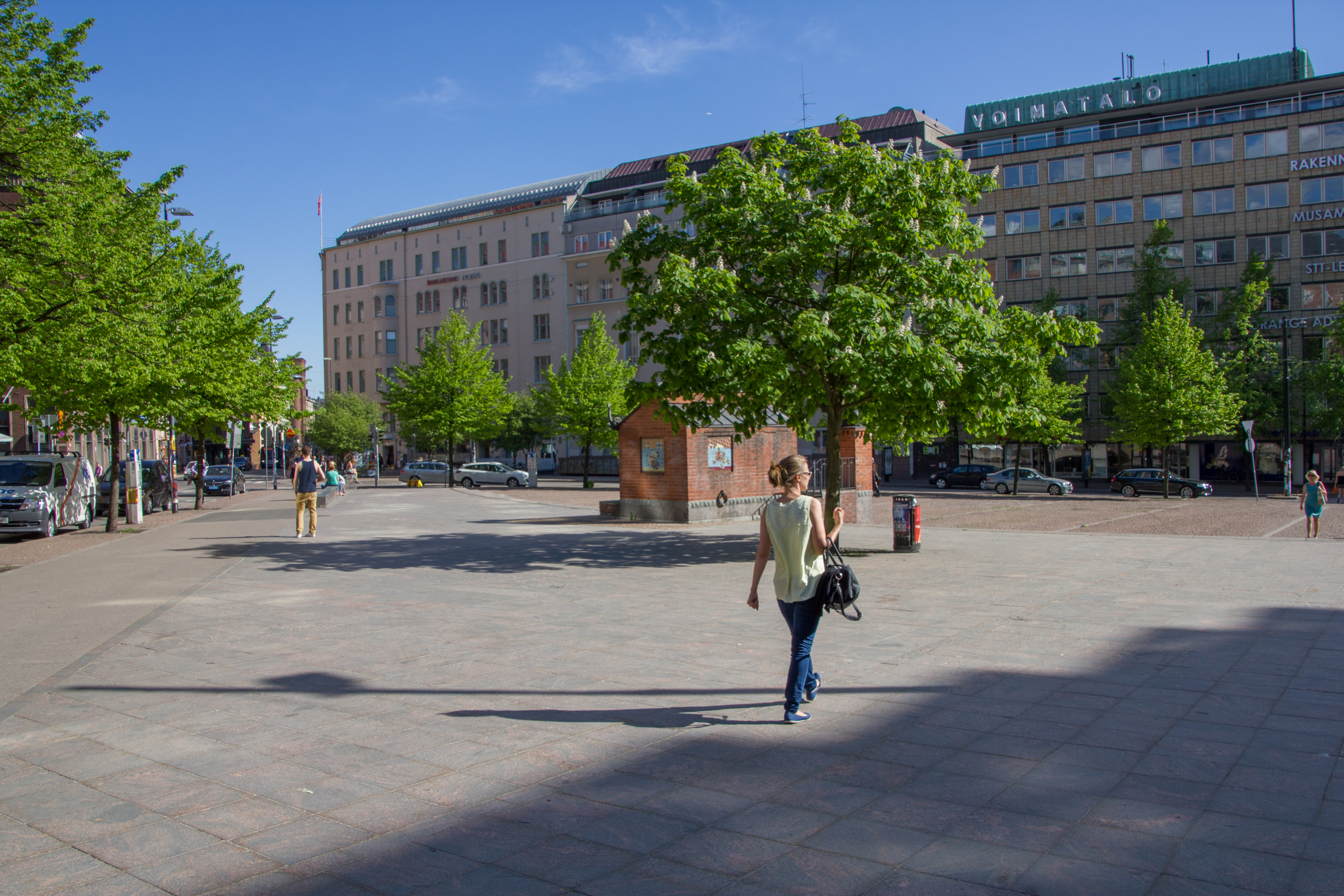 Kampintori in Helsinki, Finland.